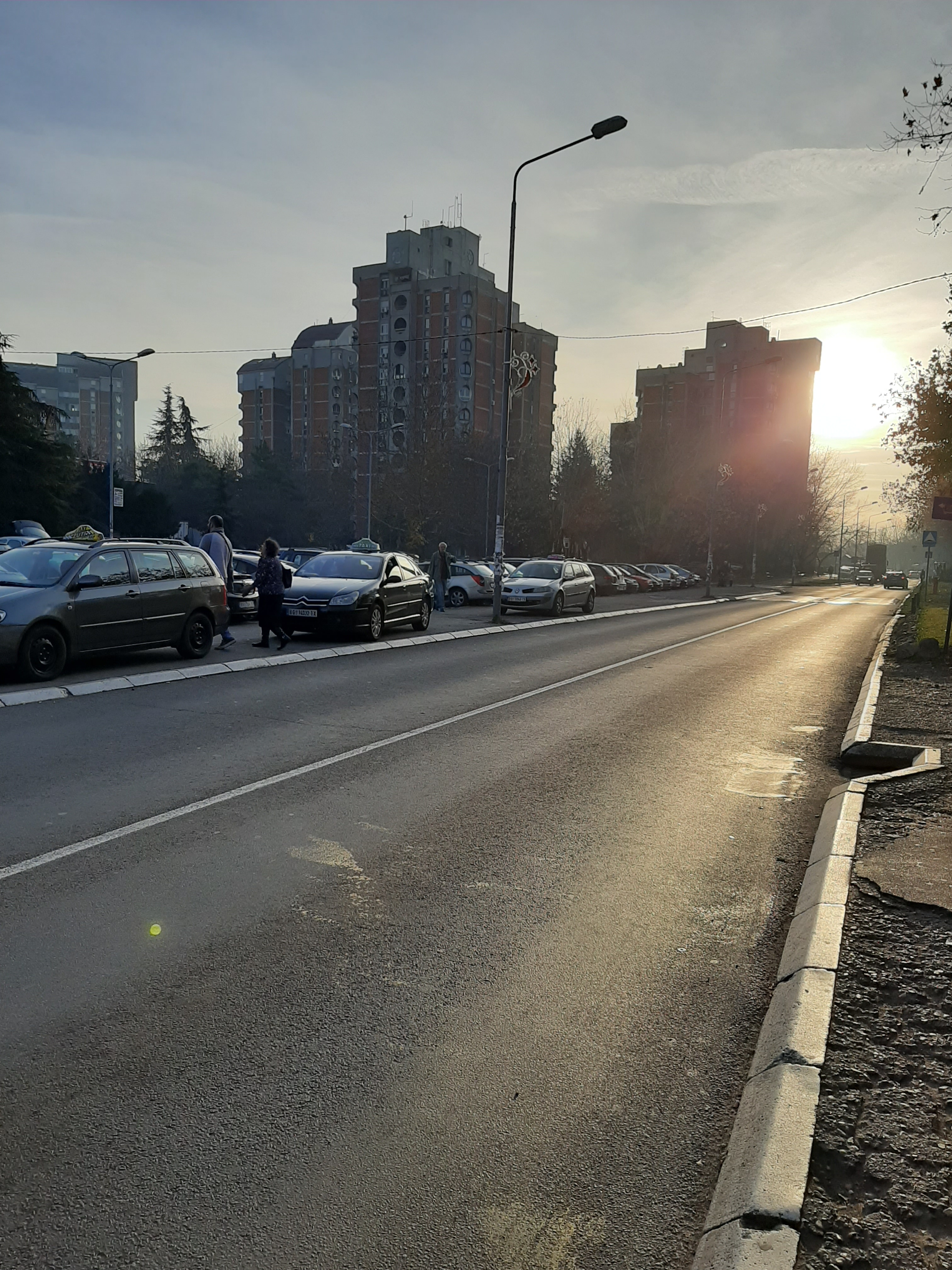 Patrijarha Joanikija Street in Belgrade